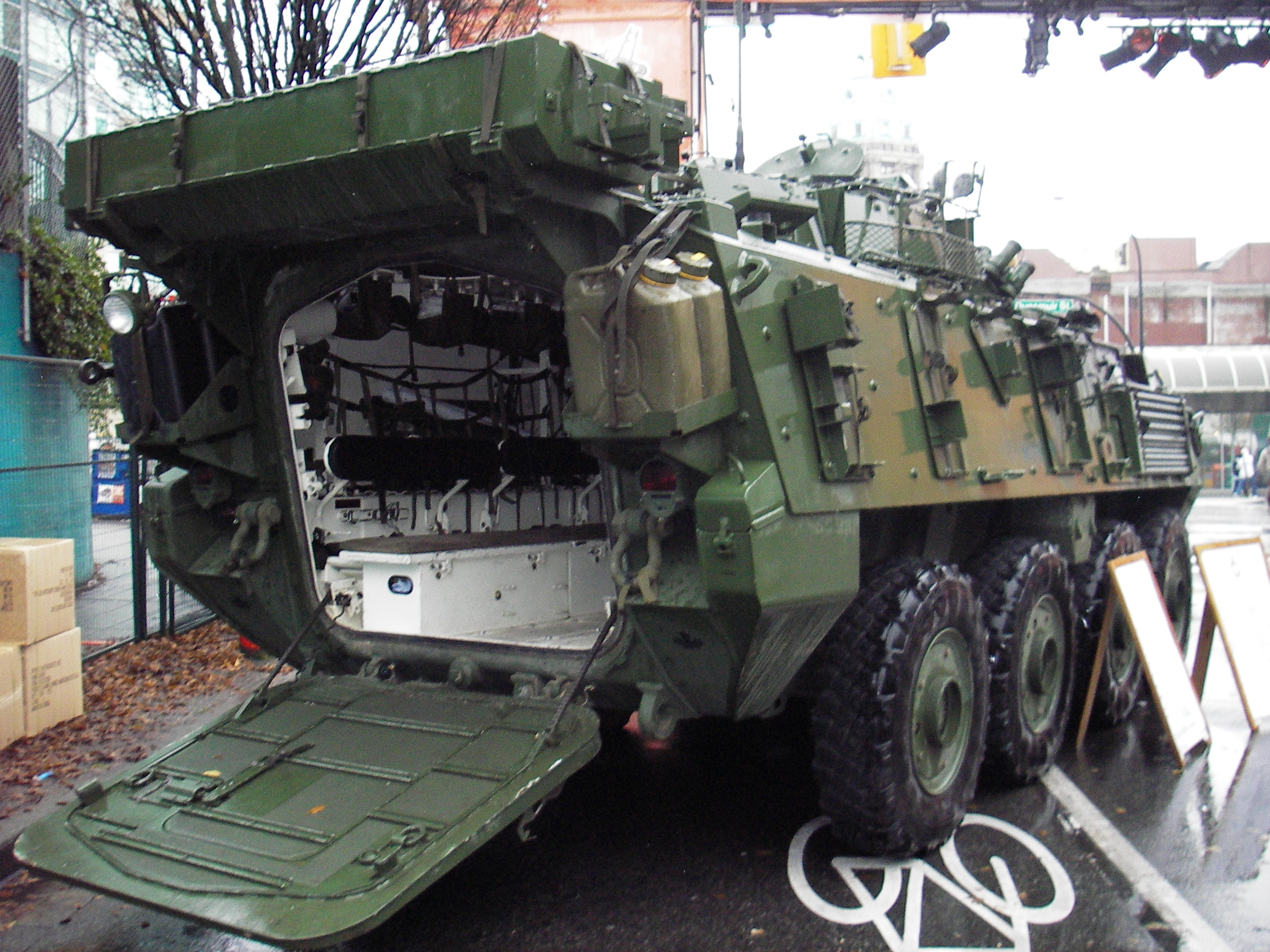 The LAV III is the Canadian Army's primary light armoured vehicle.